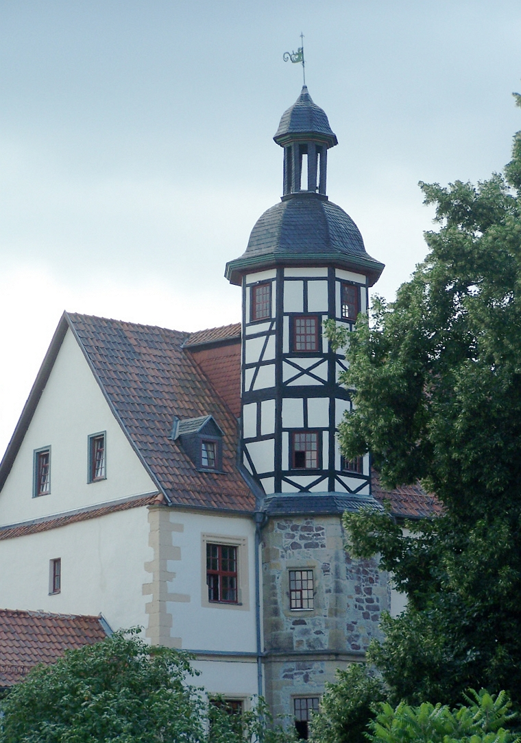 Eisenach (Esplanade) - the Residenzhaus with stair tower - a rest of the Renaissance palace of the dukes of Saxon-Eisenach.